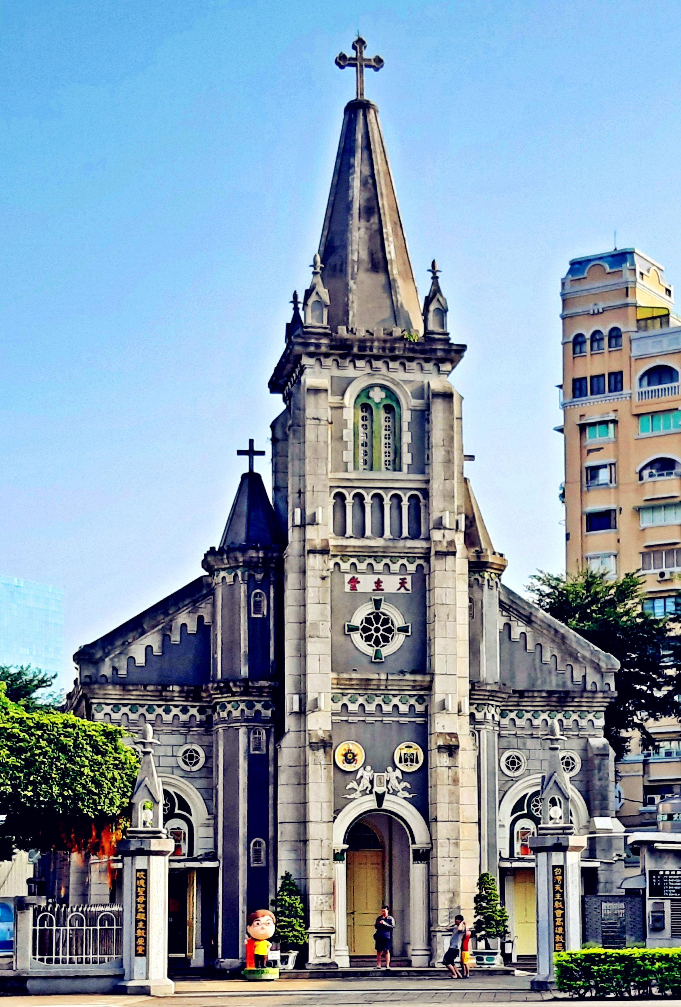 This is Taiwan's largest Catholic Church. Founded in 1859, it is the first cathedral to be reopened by the Catholic Church, and is also the fountainhead of Catholicism in modern Taiwan. As the present Minor Basilica for the Diocese of Kaohsiung, it is one of Asia's three cathedrals. The Basilica is built in the style of European Gothic churches, adding a Roman style in places, while the interior is laid out in octagons. It was voted number one in the Taiwanese 100 Scenic Spot items of Architecture in 2001.